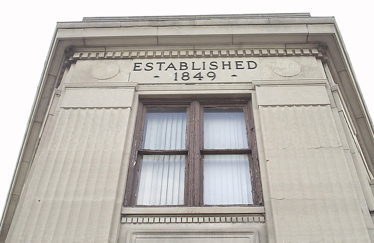 Kunsthalle Detroit, a Museum of Light and Multimedia Art, was formerly housed in former Comerica Bank building (Detroit First Savings Bank founded in 1849)